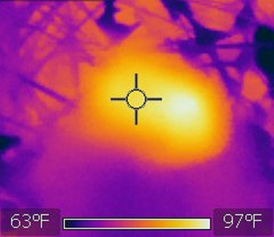 A thermal image of a honey bee (above center) and a fly (bottom center) on a dandelion. The bee emits a large amount of body heat, especially where the wings attach, while the fly remains at ambient temperature.